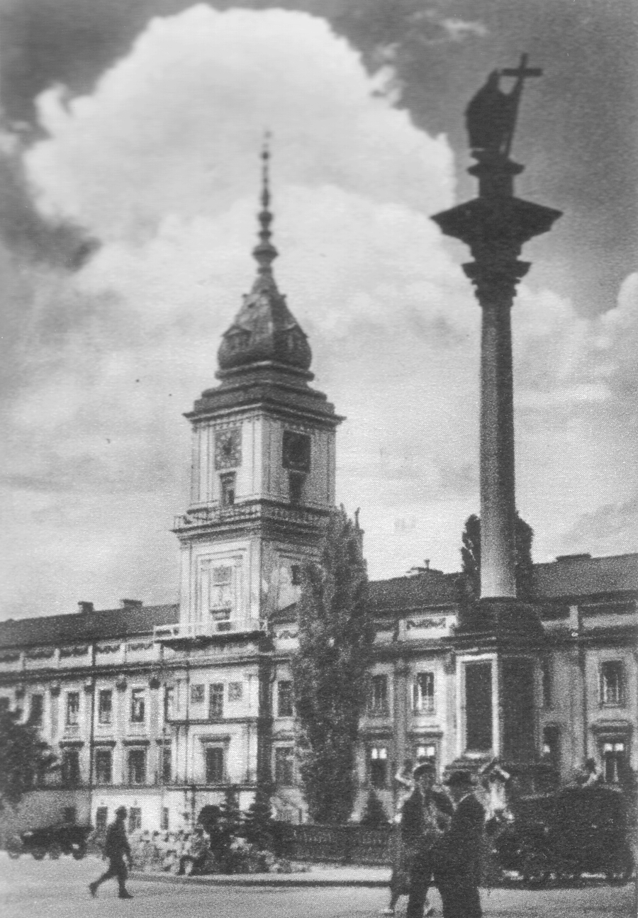 The Royal Castle in Warsaw, Poland.